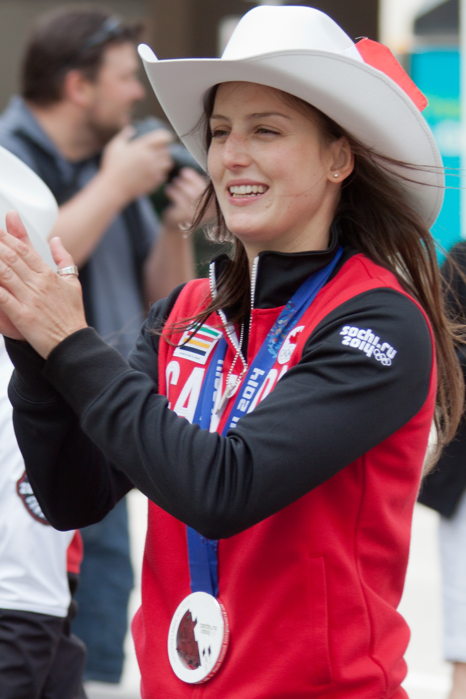 Canadian Olympic freestyle skier Kelsey Serwa is seen here at the Parade of Champions in Calgary, Alberta on June 6, 2020.